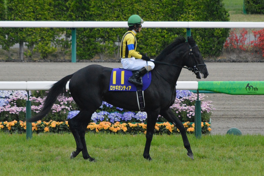 Japanese race horse Rosa Gigantea at Nakayama racecourse. Nakayama (JPN) 20 Apr 2014 Satsuki Sho (Japanese 2000 Guineas) (Grade 1) (3yo Colts & Fillies) (Turf) 1m2f Firm RankHorse NameOddsAgeWgtTrainerJockey1stIsla Bonita (JPN)41/10C39-0Hironori KuritaMasayoshi Ebina2ndTo The World (JPN)5/2FC39-0Yasutoshi IkeeYuga Kawada3rdWin Full Bloom (JPN)239/10C39-0Hiroshi MiyamotoDaichi Shibata4th - 9th/omission10thRosa Gigantea (JPN)106/10C39-0Kazuo FujisawaYoshitomi Shibata